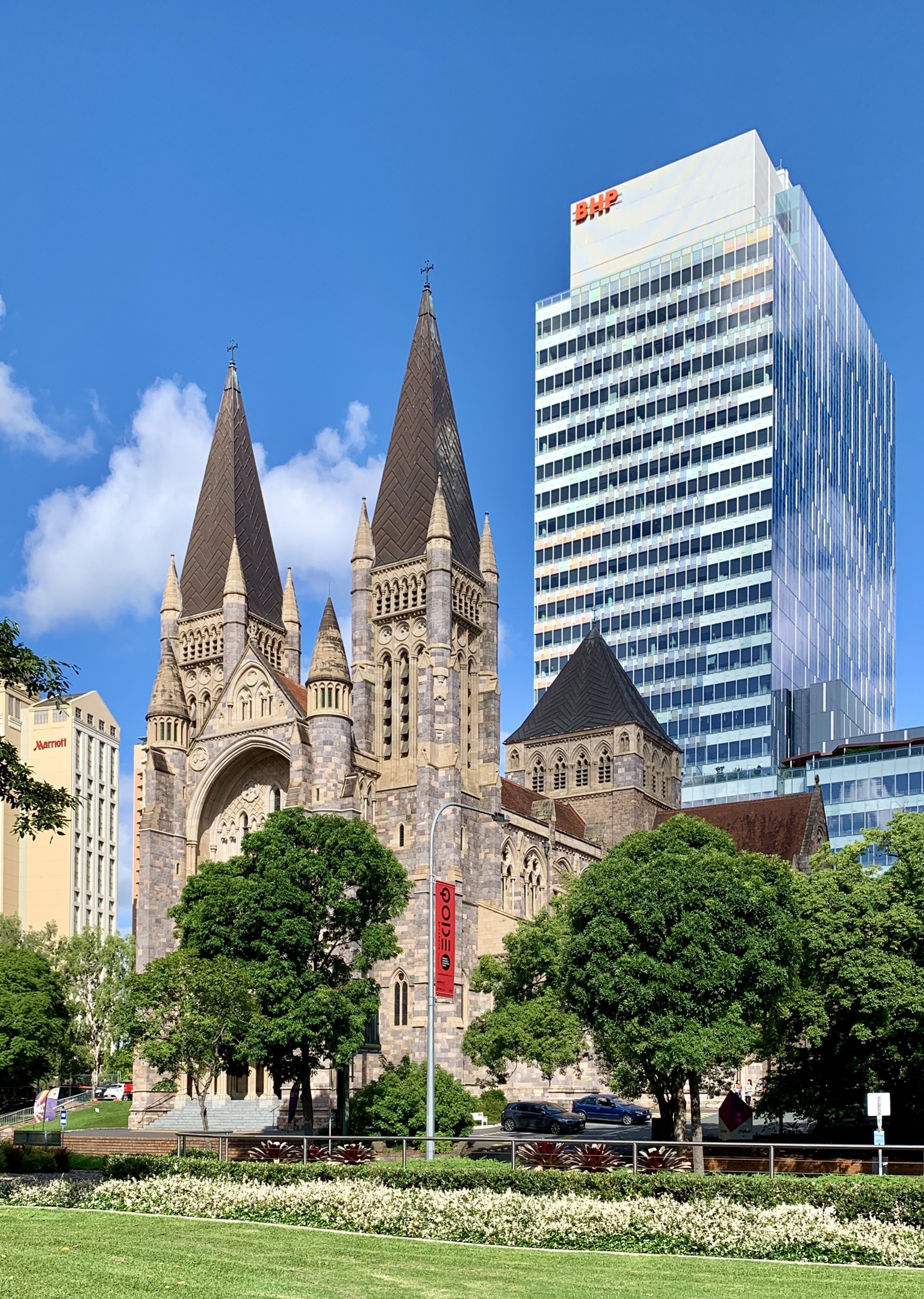 St John's Cathedral, Brisbane, 2020